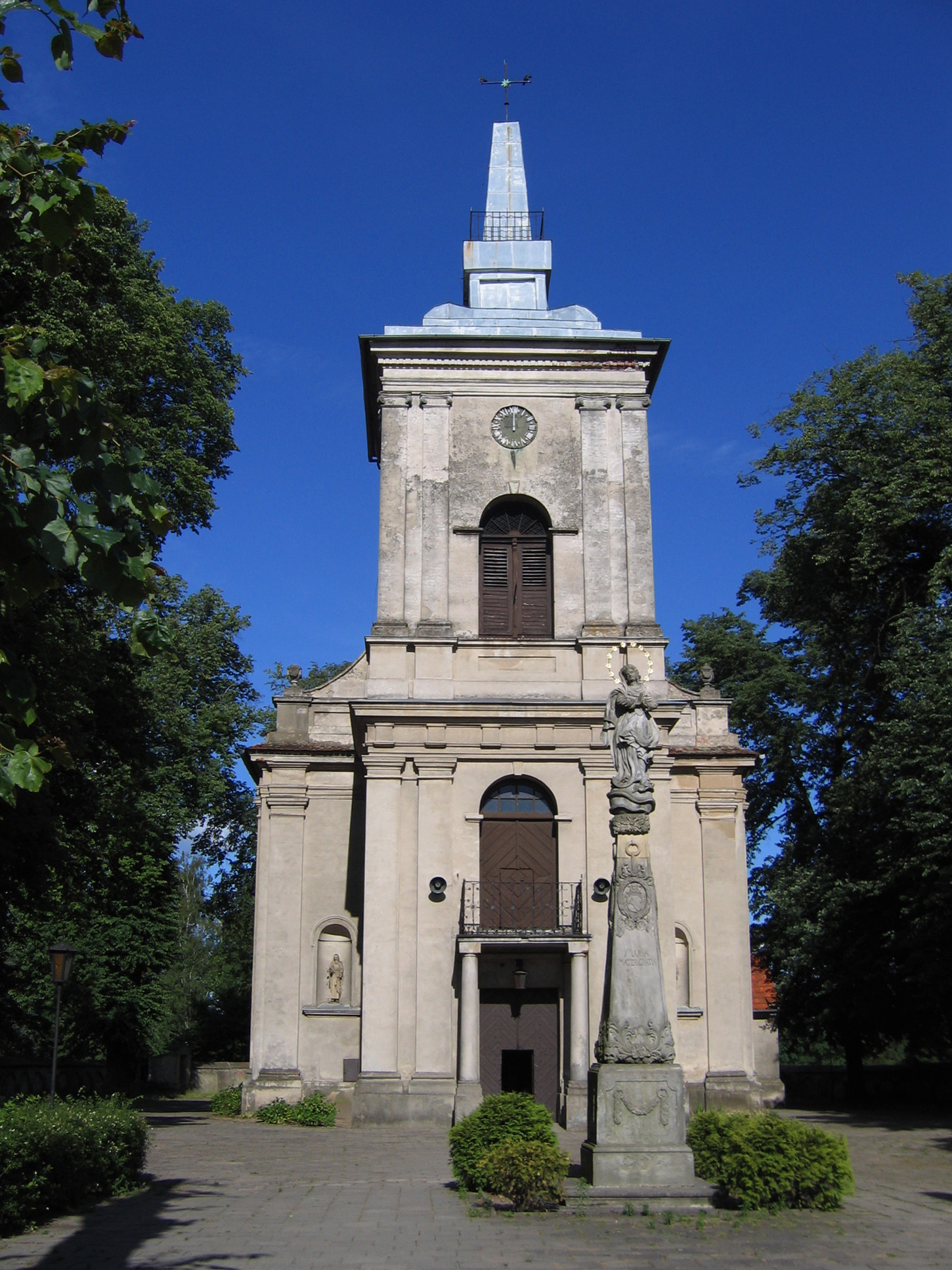 Saint Michael Archangel church in Kwilcz, Poland